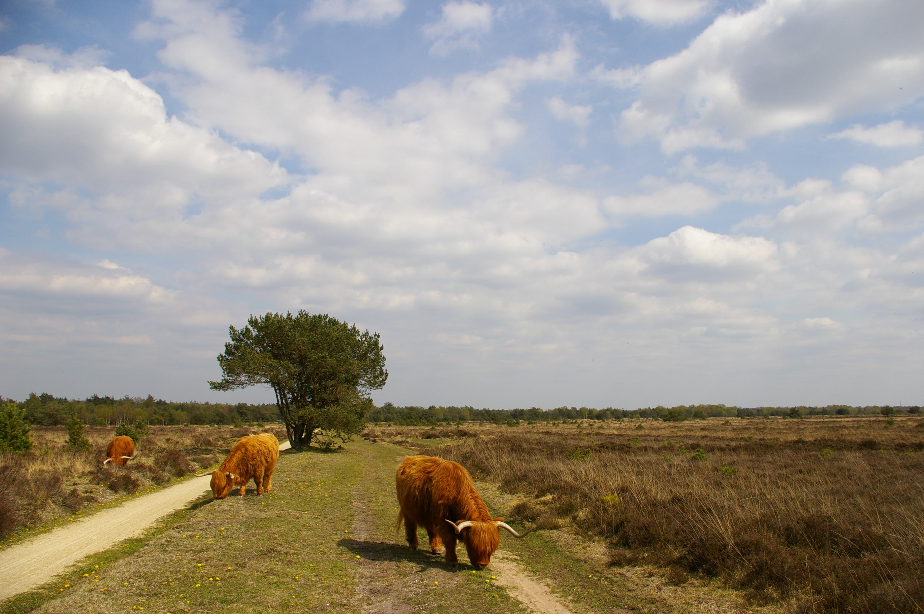 Speulderveld, near Speuld, municipality of Ermelo, Gelderland, the netherlands, used on Speuld